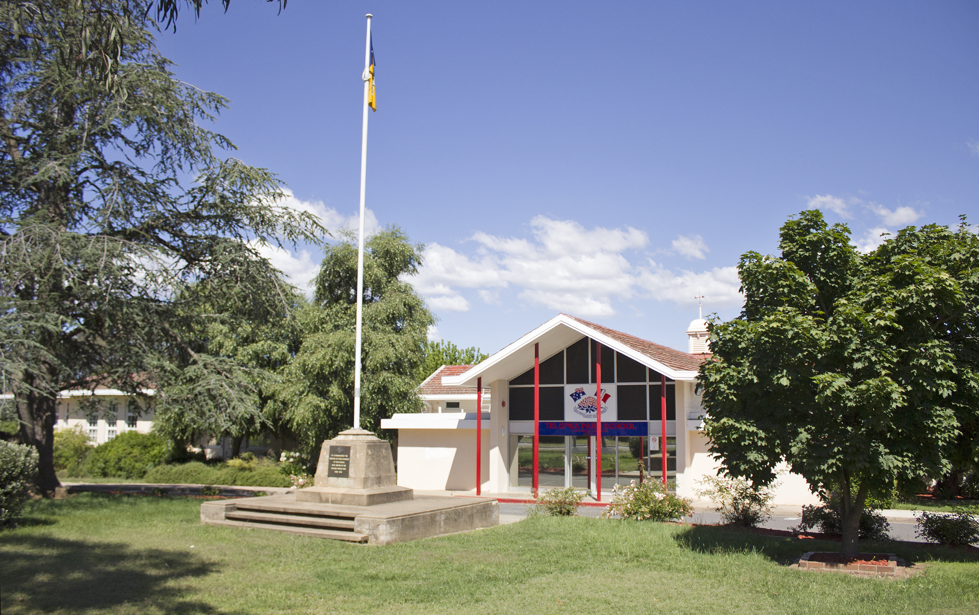 Telopea Park School (Lycée Franco-Australien de Canberra) and World War II memorial in Barton, Australian Capital Territory.